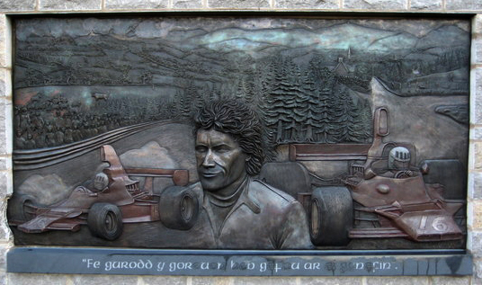 Memorial to Tom Pryce, additional information Tom was born at Rosset but moved to Ruthin with his parents and worked as an engineer for North Wales Agricultural Engineers in St Asaph (hence the tractor in the mural). Tom was driving for the F1 Shadow Team and making a name for himself as fast and skilled driver with a reputation for being unbeatable in the wet! The memorial was organised through a Trust chaired by local fellow Welshman and prominent motorsport chief David Richards of Prodrive, Benetton & BAR fame. The memorial is a fitting tribute to the only Welsh racing driver ever to win an F1 race and unveiled on what would have been his sixtieth birthday.